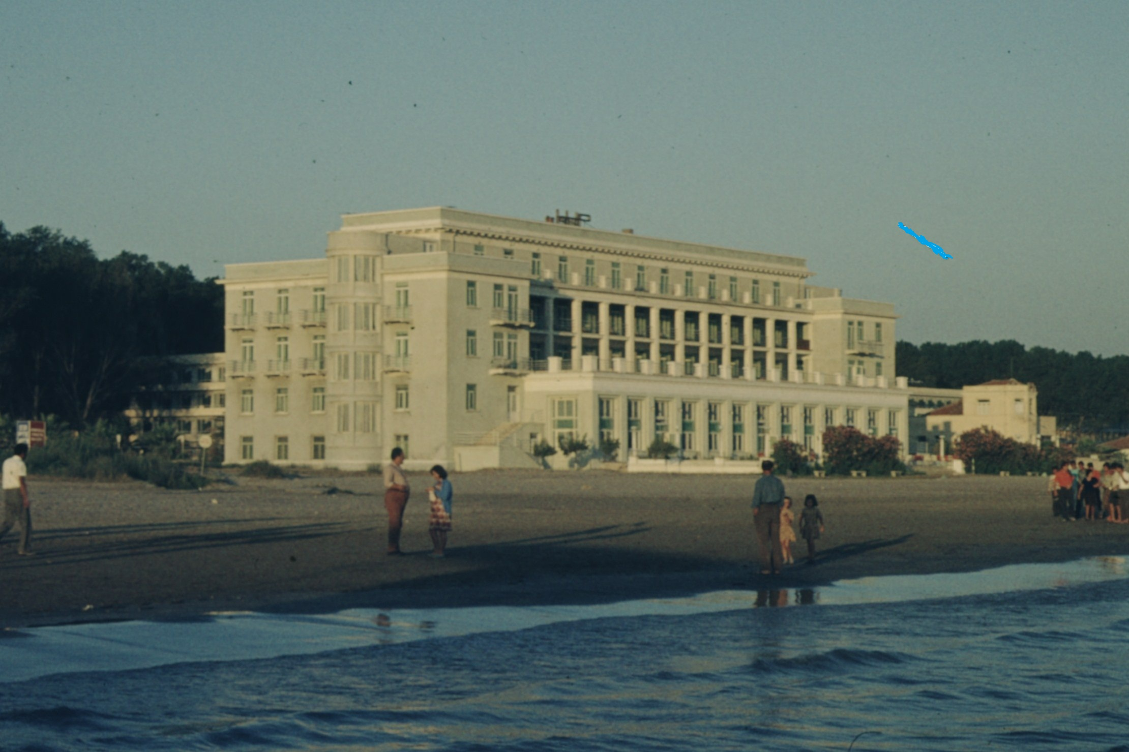 Sandy beach, Hotel Adriatiku, Durres 1973